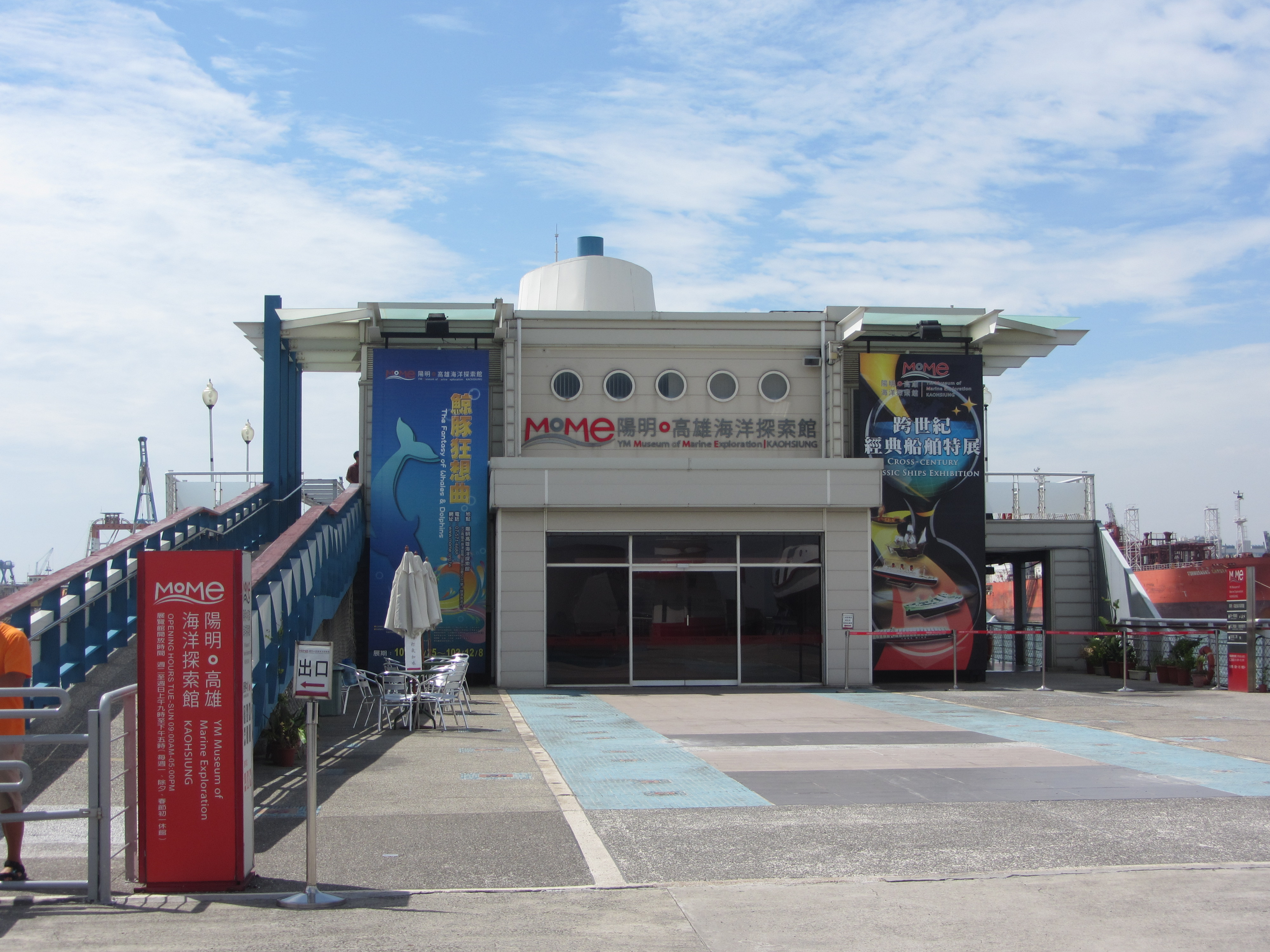 YM Museum of Marine Exploration Kaohsiung, Qijin District, Kaohsiung City, Taiwan